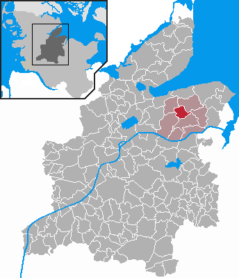 Locator maps of municipalities in Schleswig-Holstein - District Rendsburg-Eckernförde